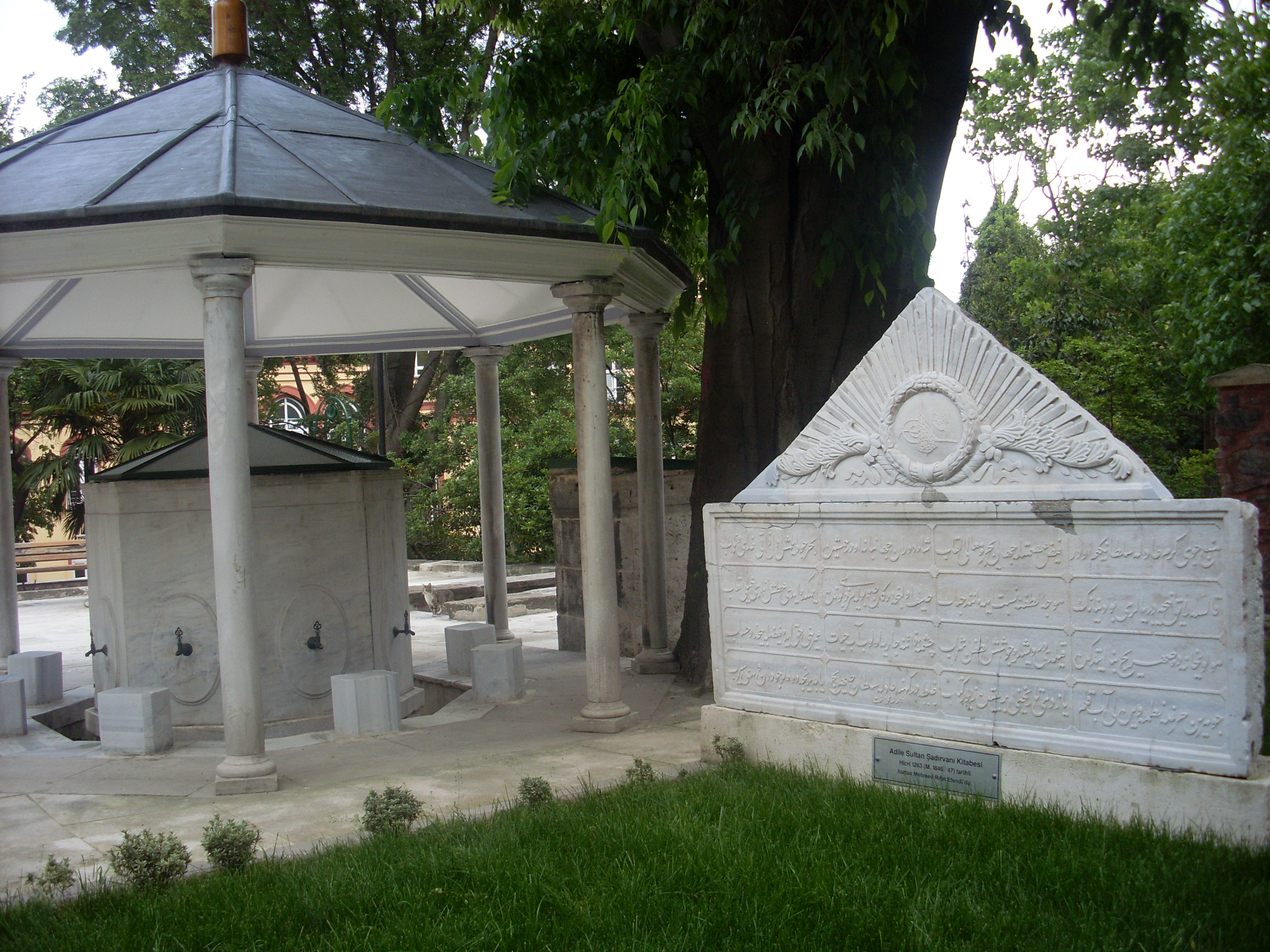 Galata Mevlevihanesi Müzesi 5